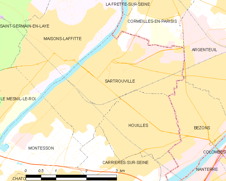 Map of French municipality Sartrouville